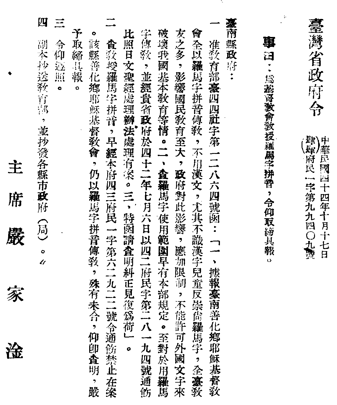 A public announcement to ban the usage of POJ, a romanization system for Taiwanese Min Nan.